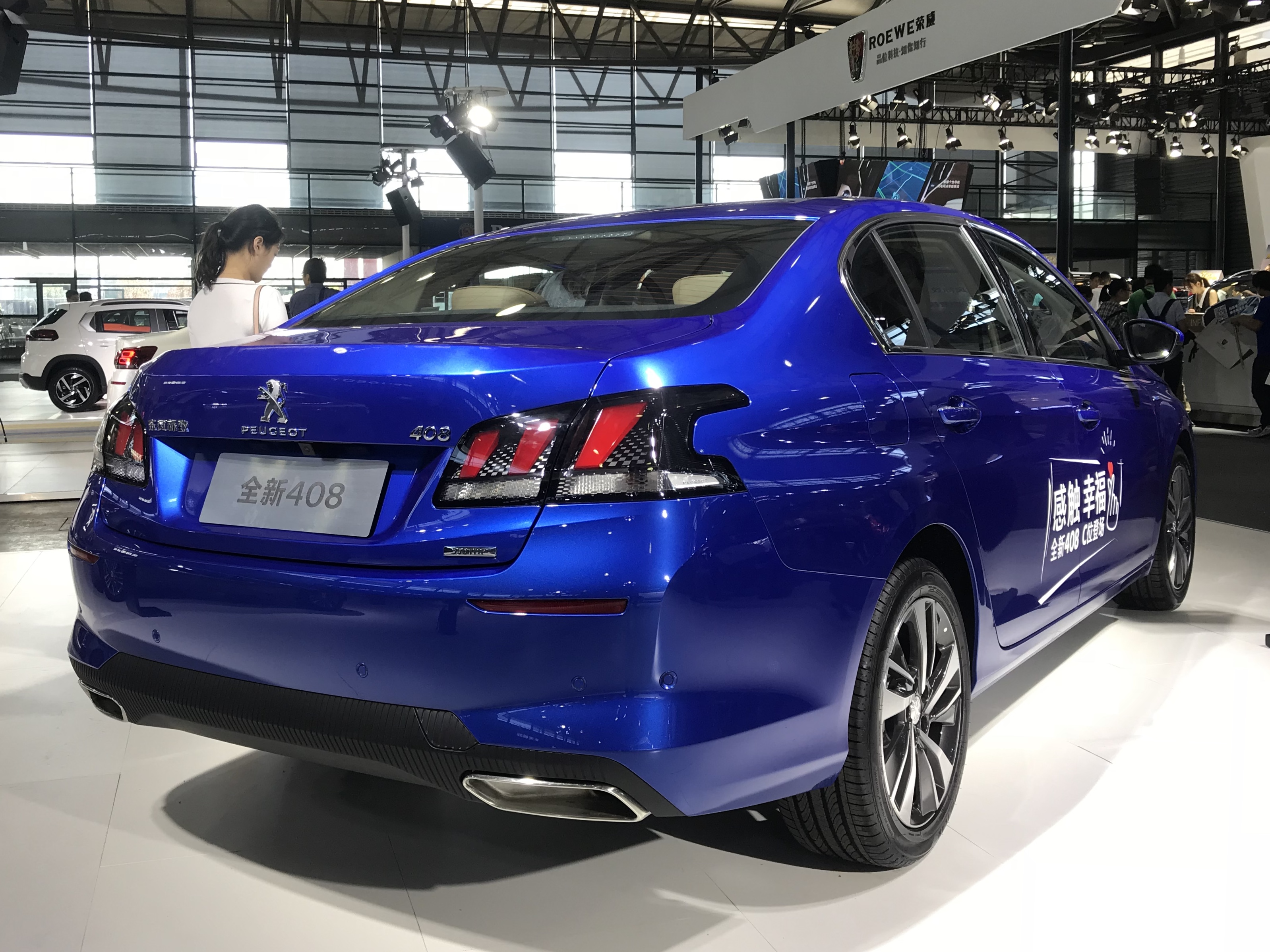 Peugeot 408 II facelift